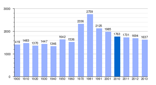 villadiego